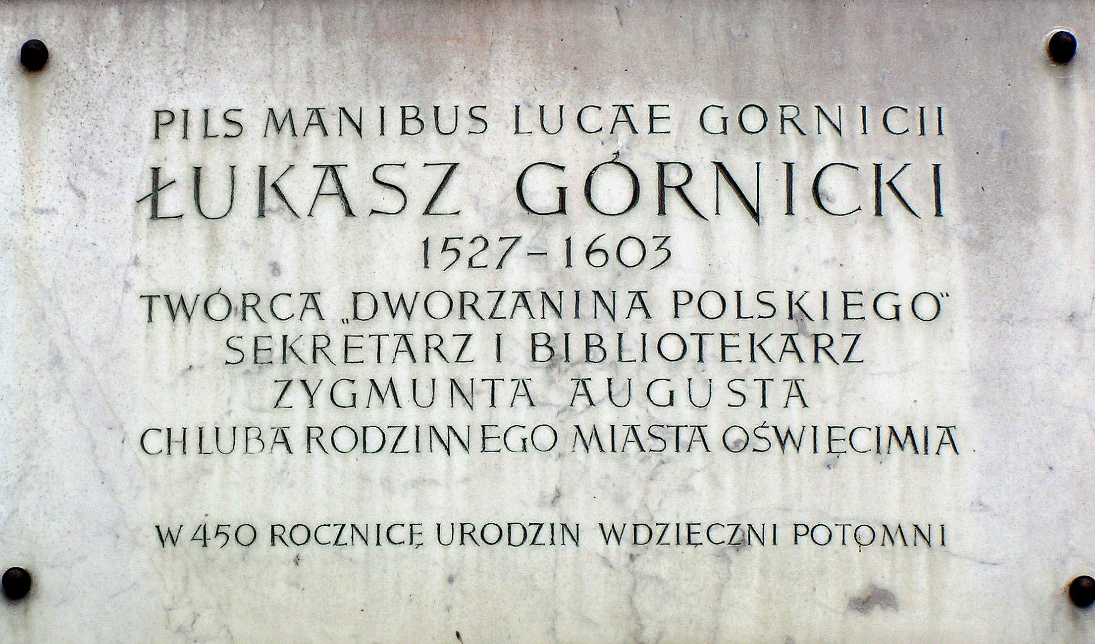 A plaque on the Market Square in Oświęcim dedicated to Łukasz Górnicki.